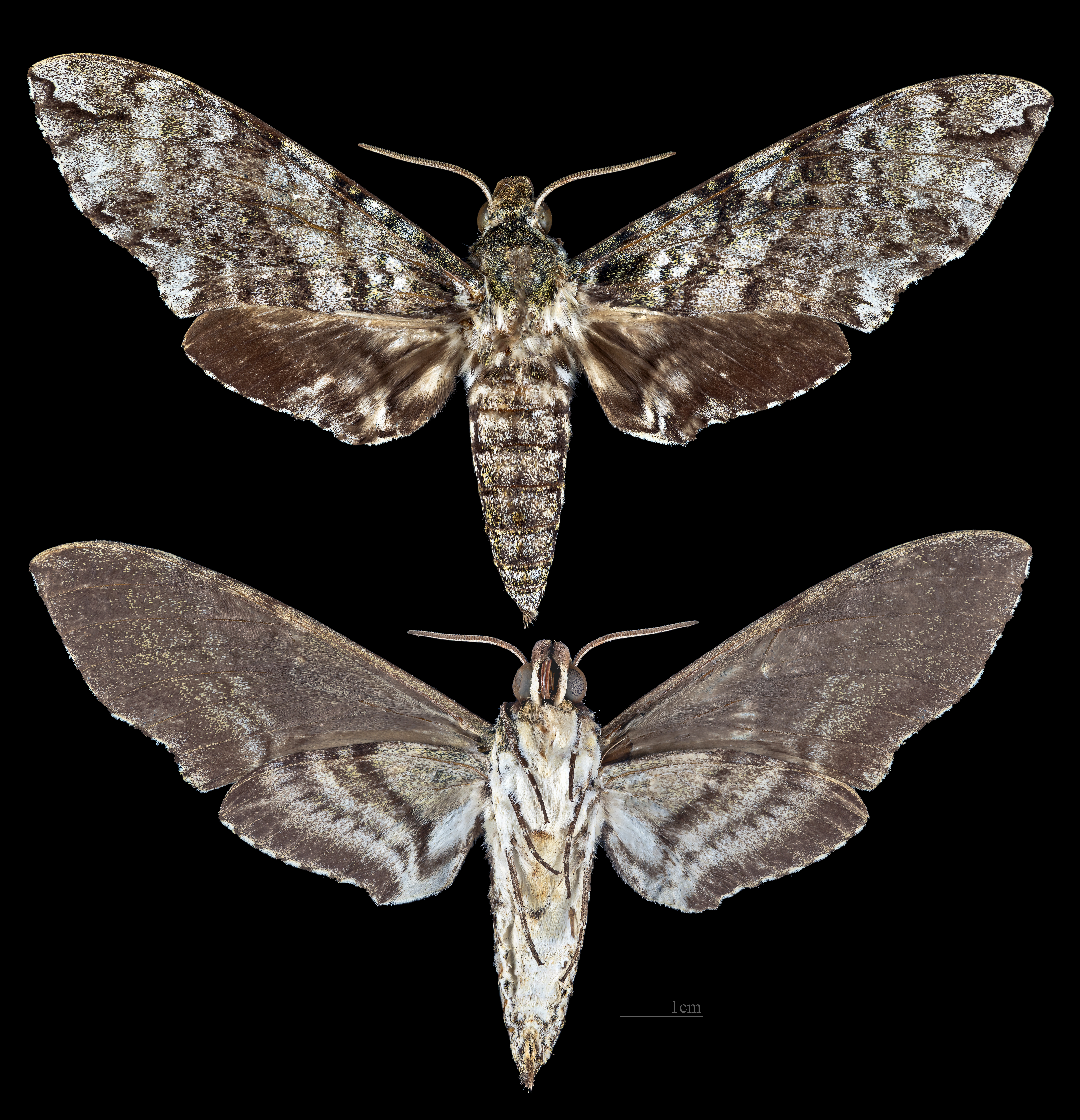 Manduca extrema - Two views of same specimen Collection of the Mathematician Laurent Schwartz